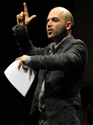 Roberto Saviano by Giancarlo Belfiore ijf10